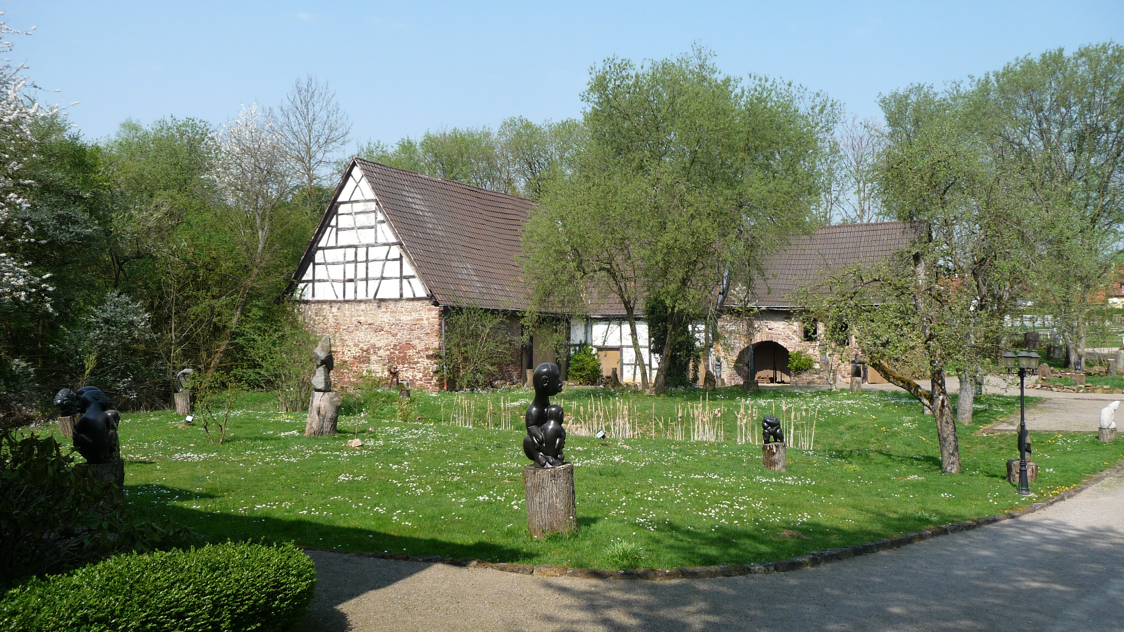 Shona art; Art gallery in Gauangelloch, Leimen; Germany